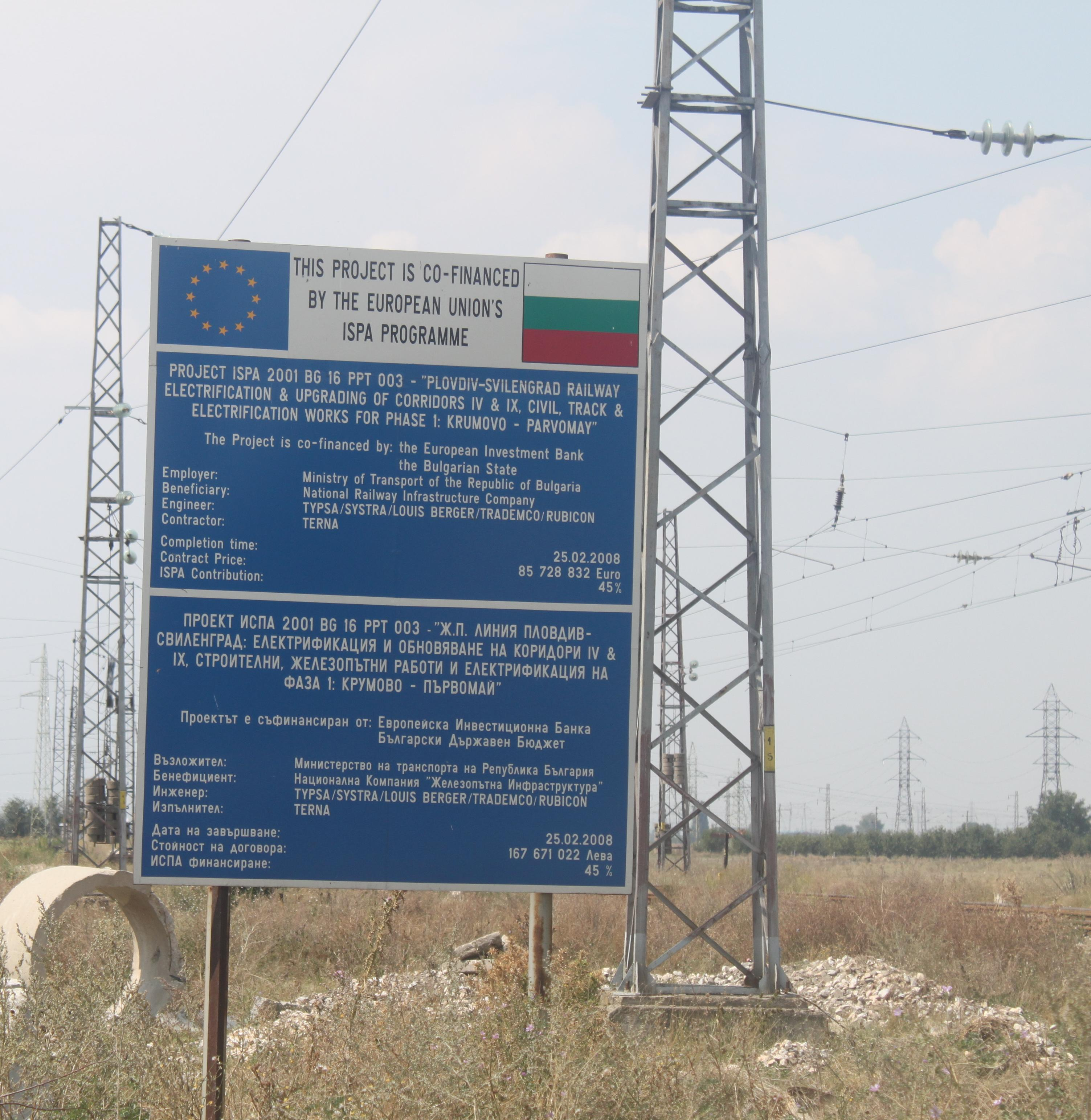 ISPA support in Bulgaria. Electrification of the railway line Krumovo-Parvomay Construction cost € 85.7 million, 45% of EU grant